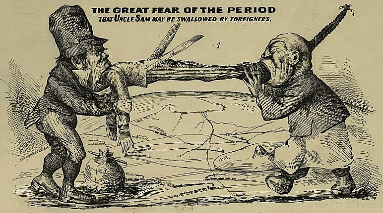 lithograph "The great fear of the period That Uncle Sam may be swallowed by foreigners : The problem solved" - Detail: an Irish man with the head of Uncle Sam in his mouth and a Chinese man with the feet of Uncle Sam in his mouth